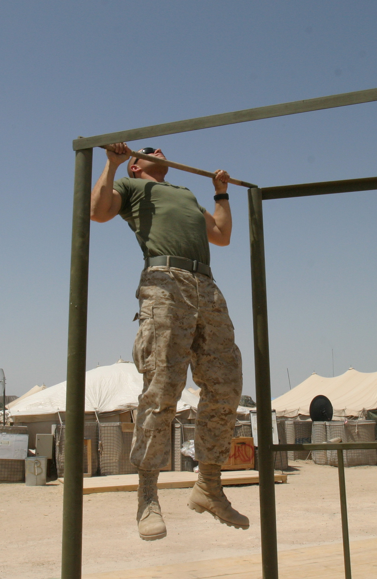 A US Marine Doing Pull-ups.